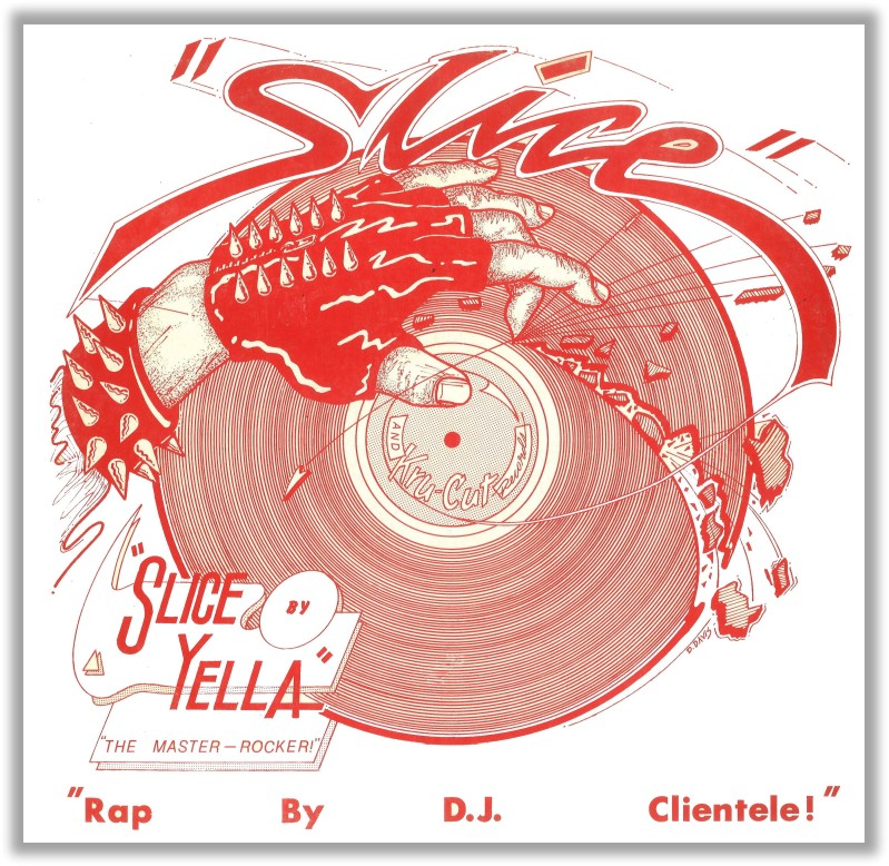 Album cover of The Wreckin Cru 12-inch single "Slice" featuring Yella. The first pressing of the single "Slice" does not list the "The Wreckin Cru" as the artist on the label and was released in 1984 on Kru-Cut Records.